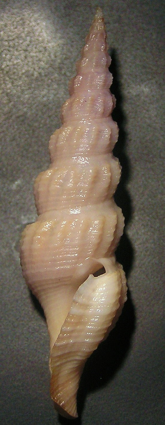 Inquisitor aesopus (Schepman, 1913) , a turrid snail in the family Turridae; Philippines